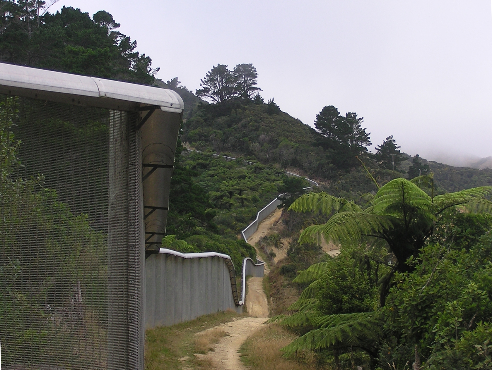 Karori Wildlife Sanctuary fenceline and outer track at the far end of the sanctuary. Wellington, New Zealand